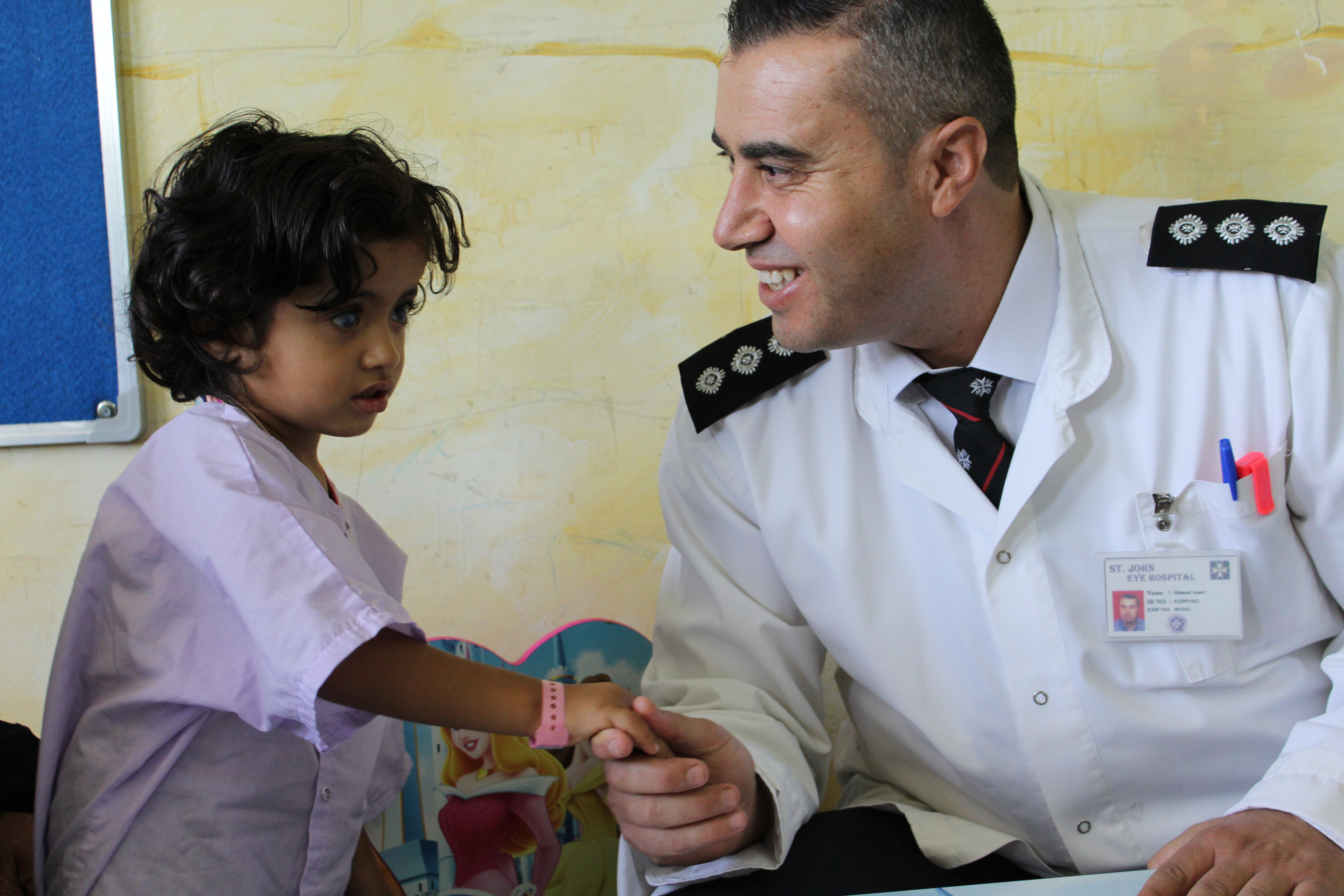 St John Nurse with Gazan Glaucoma patient. September 2016.